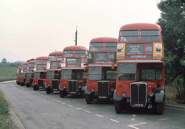 Last of the Many London Transport AEC Regent buses (RT's) parked at Chadwell Heath. They were outstationed from Seven Kings garage whilst it was being rebuilt. The post war RT's began to enter service in 1947 and over 4000 were built. The last RT's were withdrawn in 1979. Many of the more modern designs introduced in the late 1960's and early 1970's to replace the RT's were withdrawn at the same time, having failed to cut the mustard.